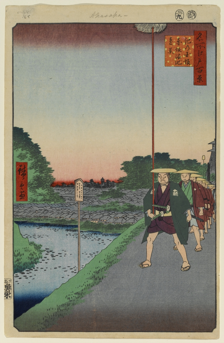 Part of the series One Hundred Famous Views of Edo, no. 085, part 3: Autumn.